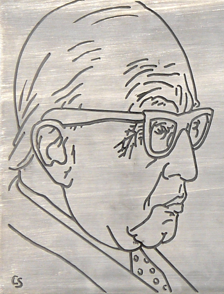 Paul Arnsberg – Portrait by Clemens M. Strugalla on Paul Arnsberg Memorial at Paul-Arnsberg-Platz (square) in the borough Ostend in Frankfurt am Main, Hesse, Germany